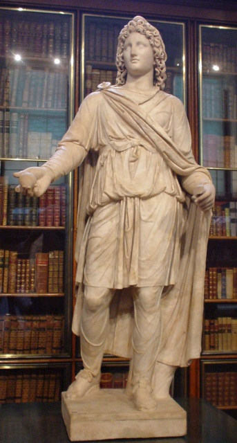 photo taken by lonpicman Afbeelding:Statue of Paris.jpg